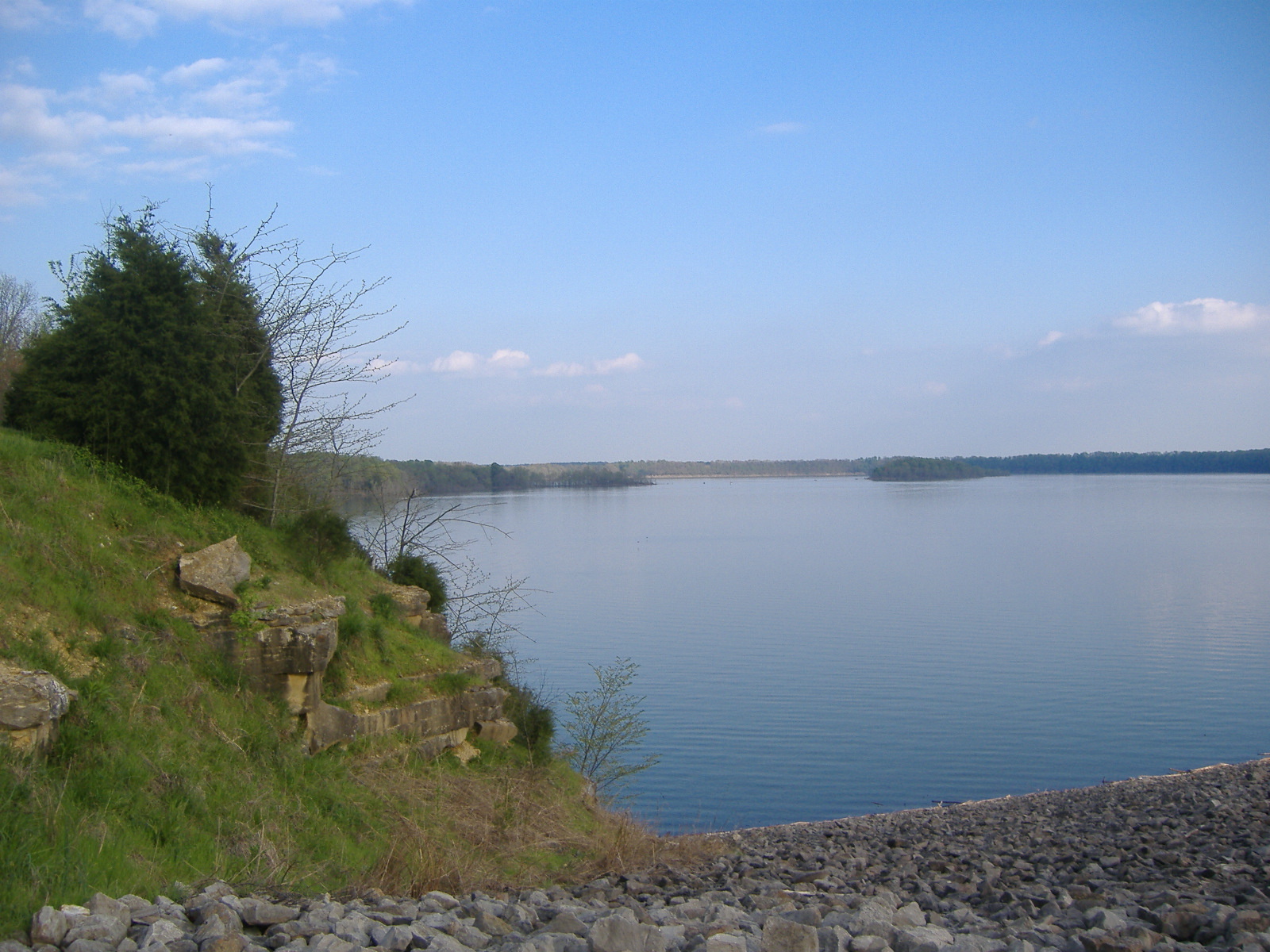 Barren River Lake in Kentucky.